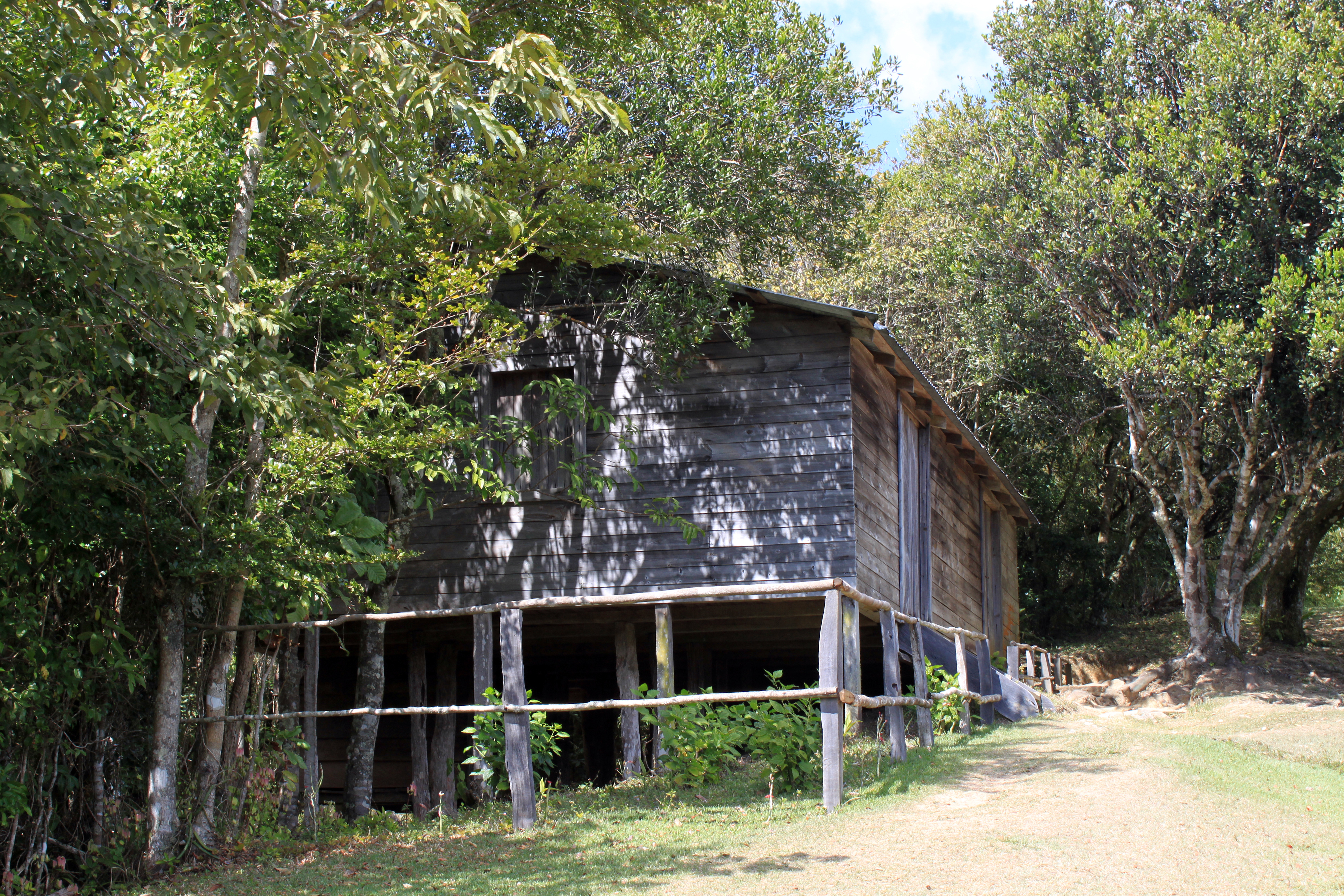 Comandancia de la Plata, Sierra Maestra, Cuba